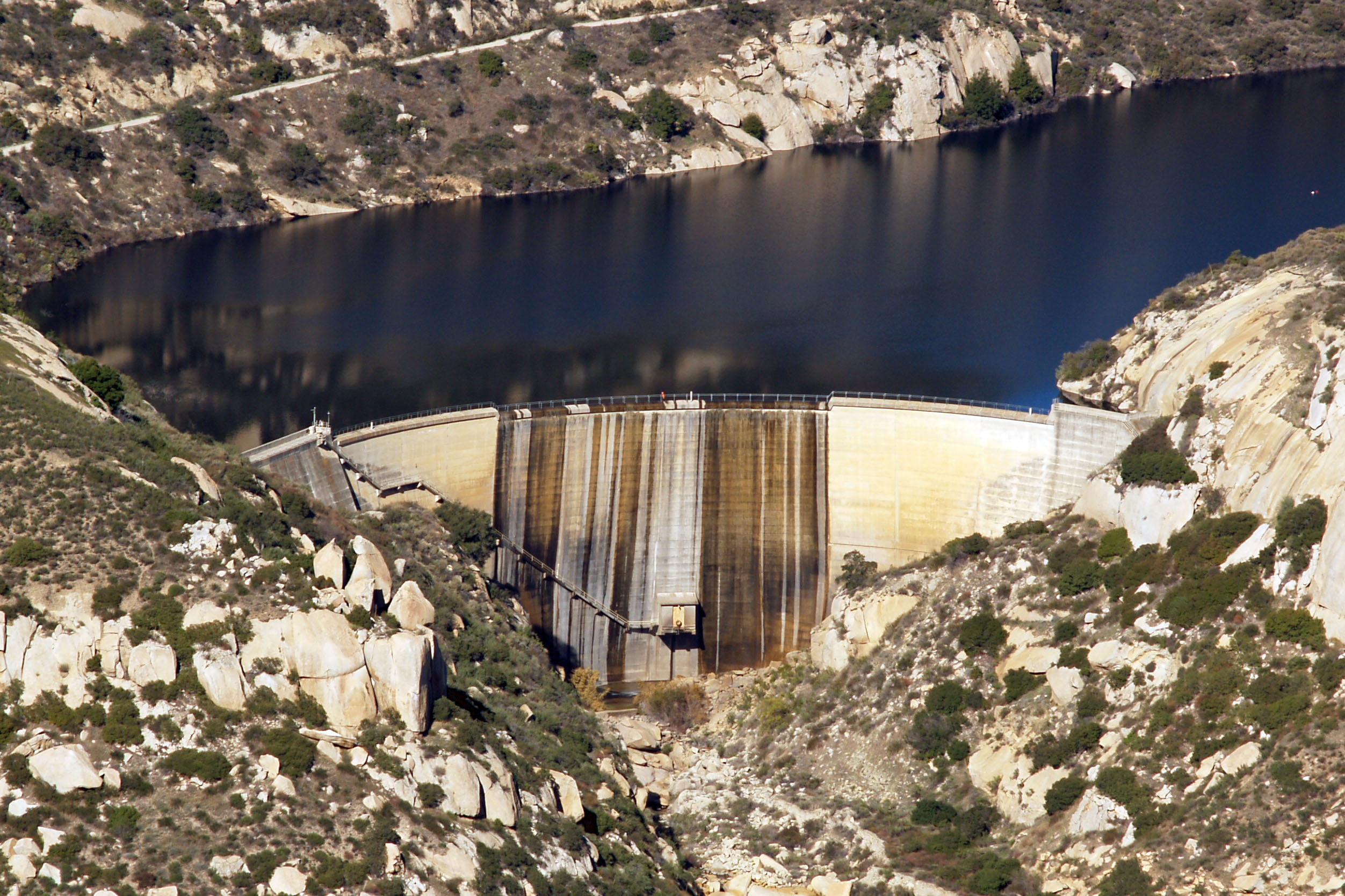 An aerial view of Loveland Dam in San Diego County taken by Phil Konstantin from a helicopter. Please acknowledge "Phil Konstantin" as the creator of this photograph.